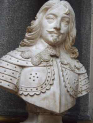 Manassès de Pas de Feuquières, battles gallery, Versailles castle, France